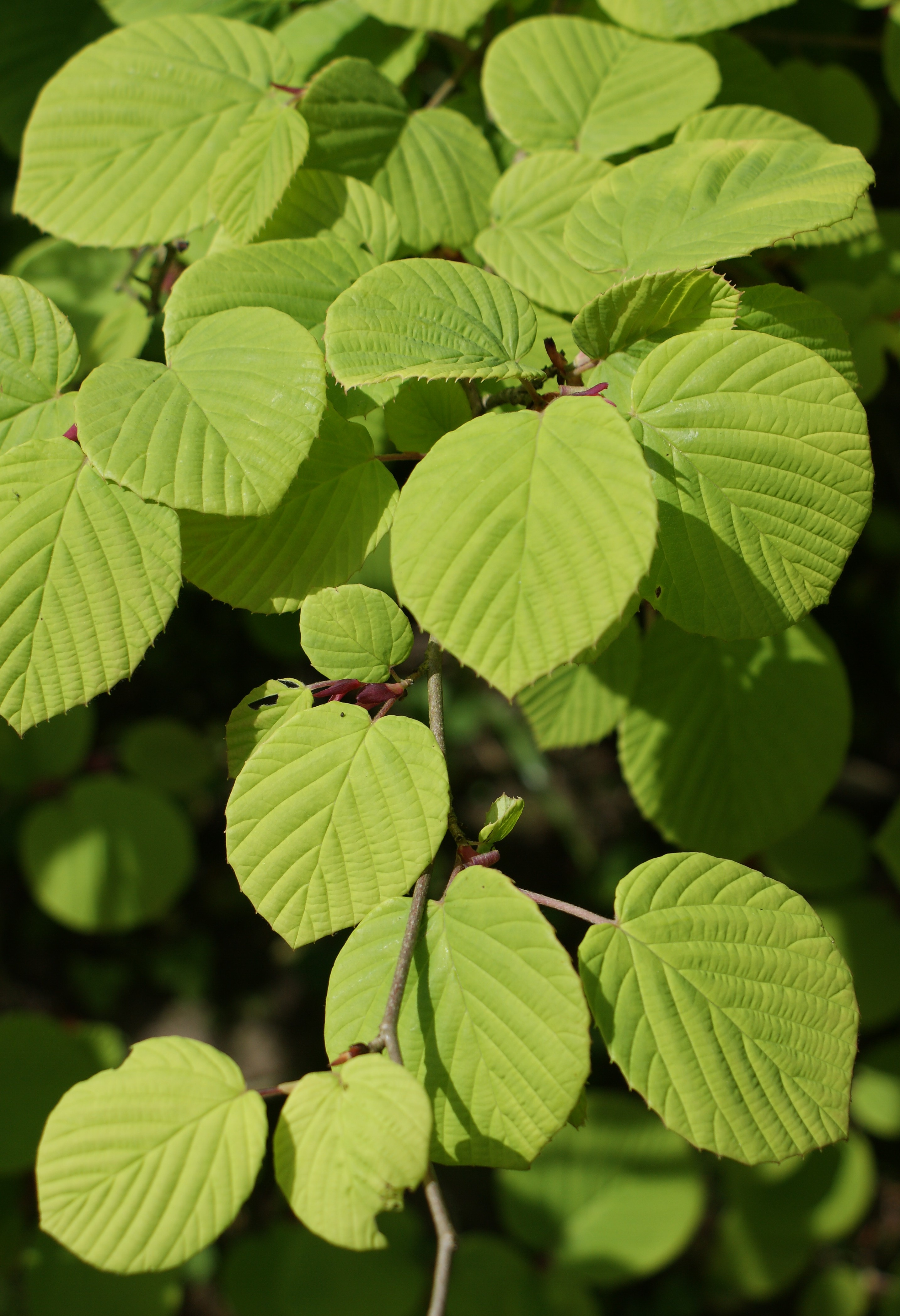 Corylopsis gotoana. Glinna Arboretum near Szczecin (NW Poland)